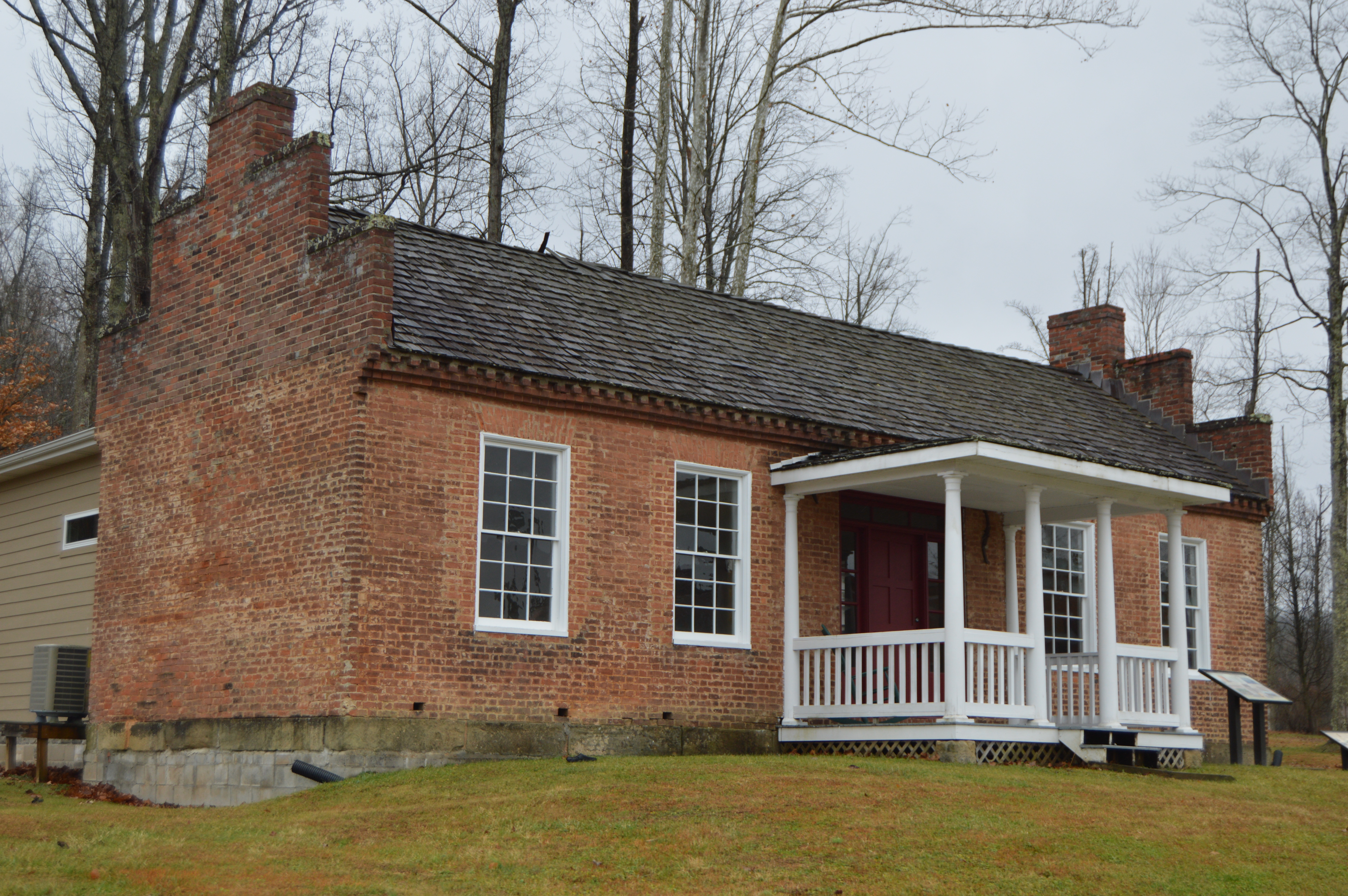 Front and northeastern end of the James W. Hoge House, located behind the Putnam County Courthouse in Winfield, West Virginia, United States. Built in 1838, it is listed on the National Register of Historic Places.